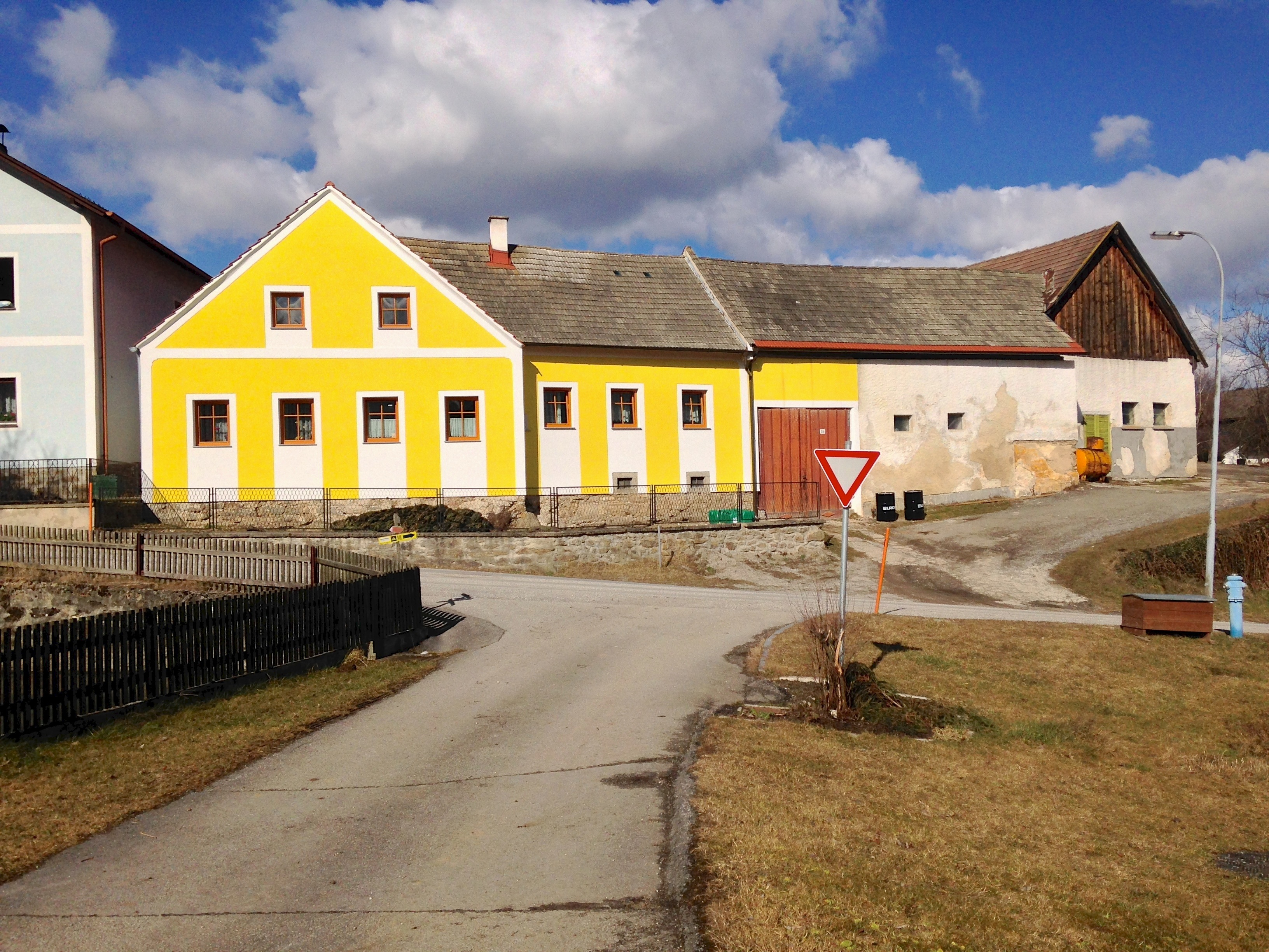 Photographed in 2014, this was the home of Johann Nepomuk Hiedler 1807-1888, rumoured to be Adolf Hitler's paternal grandfather.